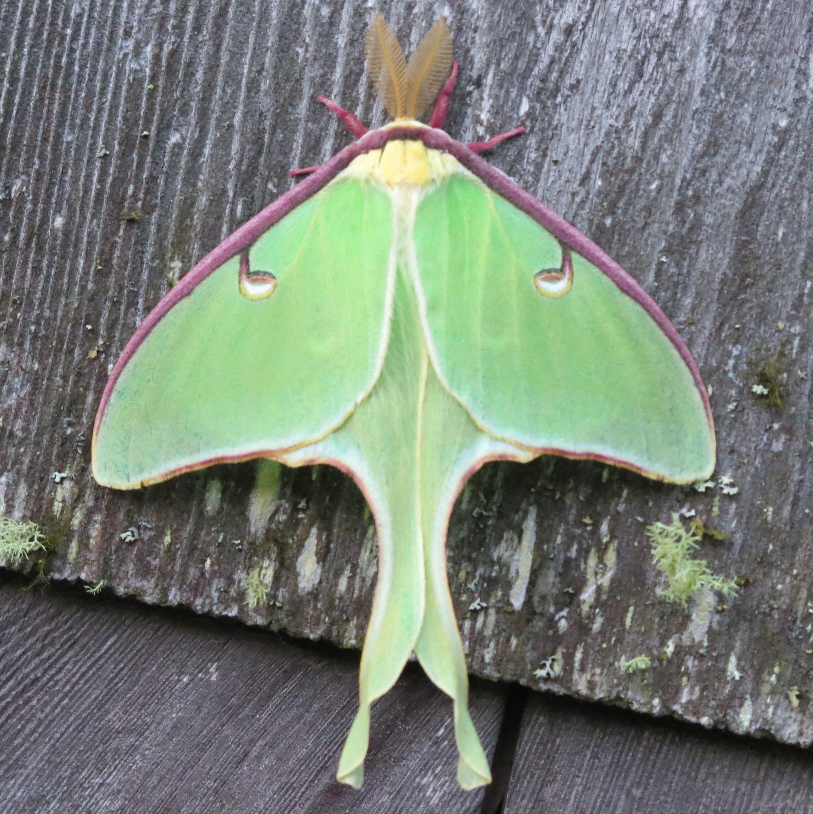 Actias luna moth, male